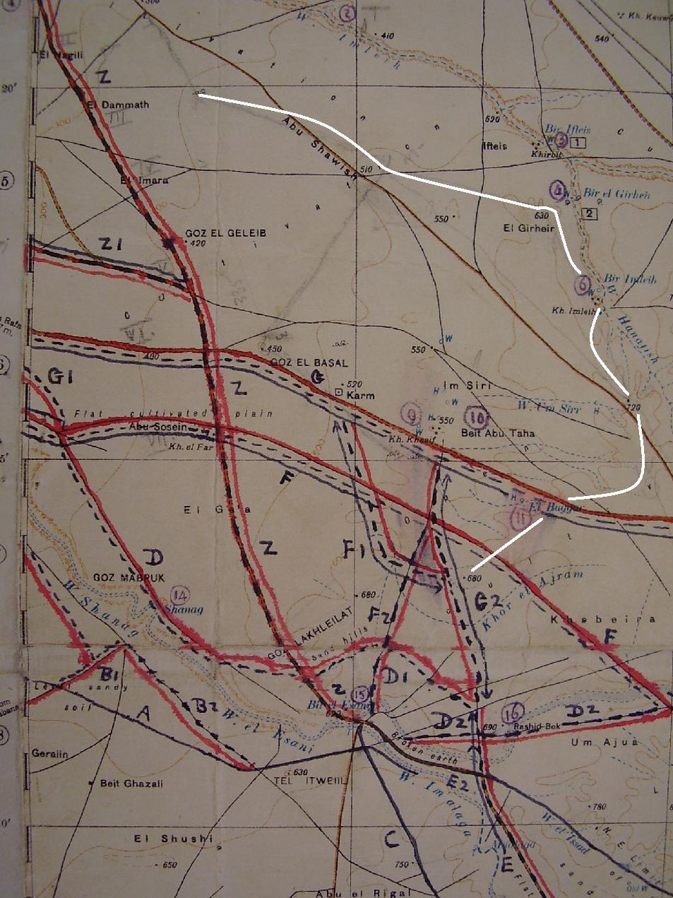 Map section extracted from the Geographical Section, General Staff, No. 2230, Sinai Peninsular, Beersheba, Sheet North H-36 E-IV of 1917. As far as can be ascertained the map is in the Public Domain. The Defensive Line shown in white is published under the Creative Commons Attribution 3.0 License.